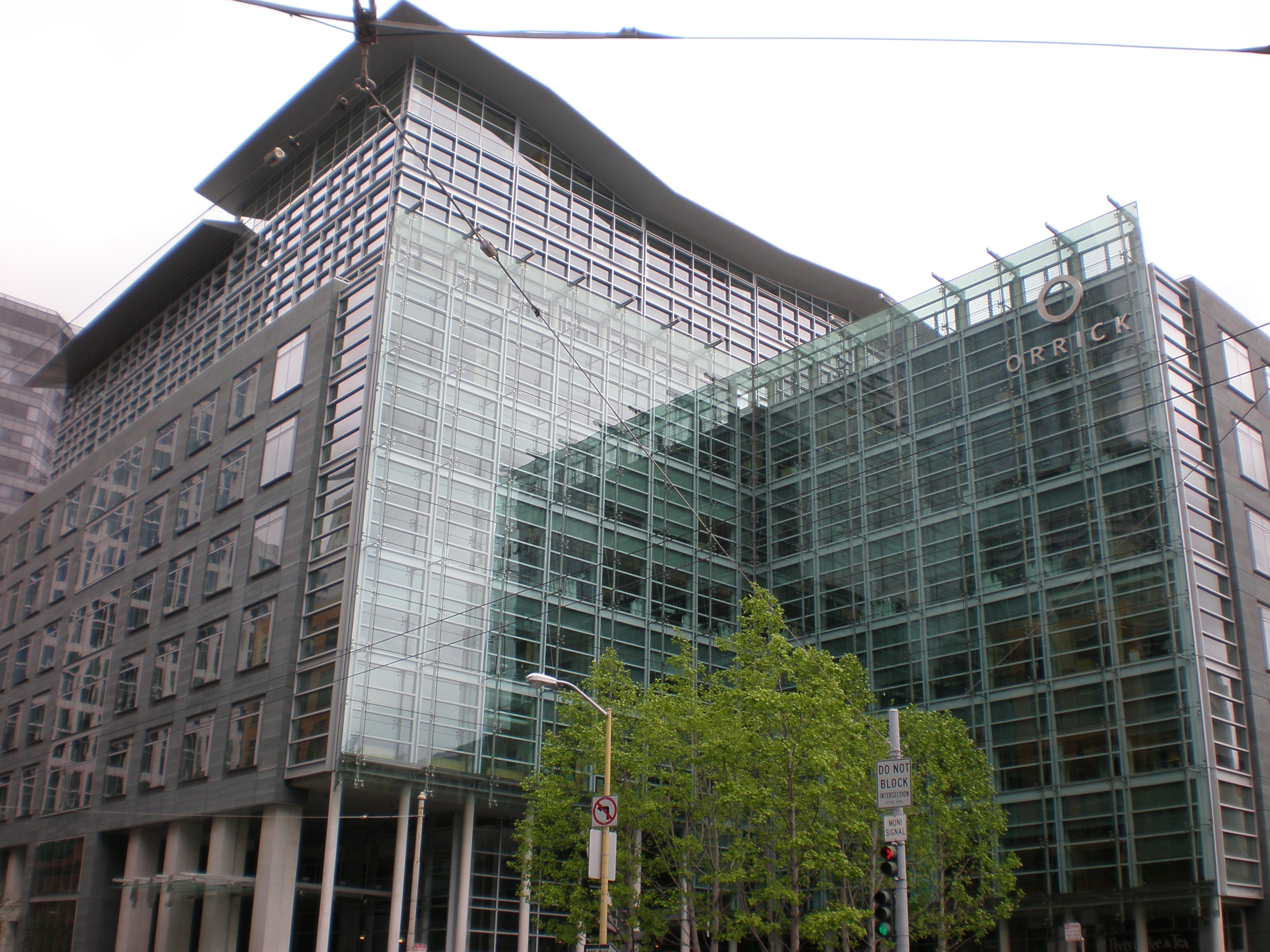 The northwest side of the Orrick Building at 405 Howard Street in San Francisco, California. Law firm Orrick, Herrington & Sutcliffe is headquartered here.